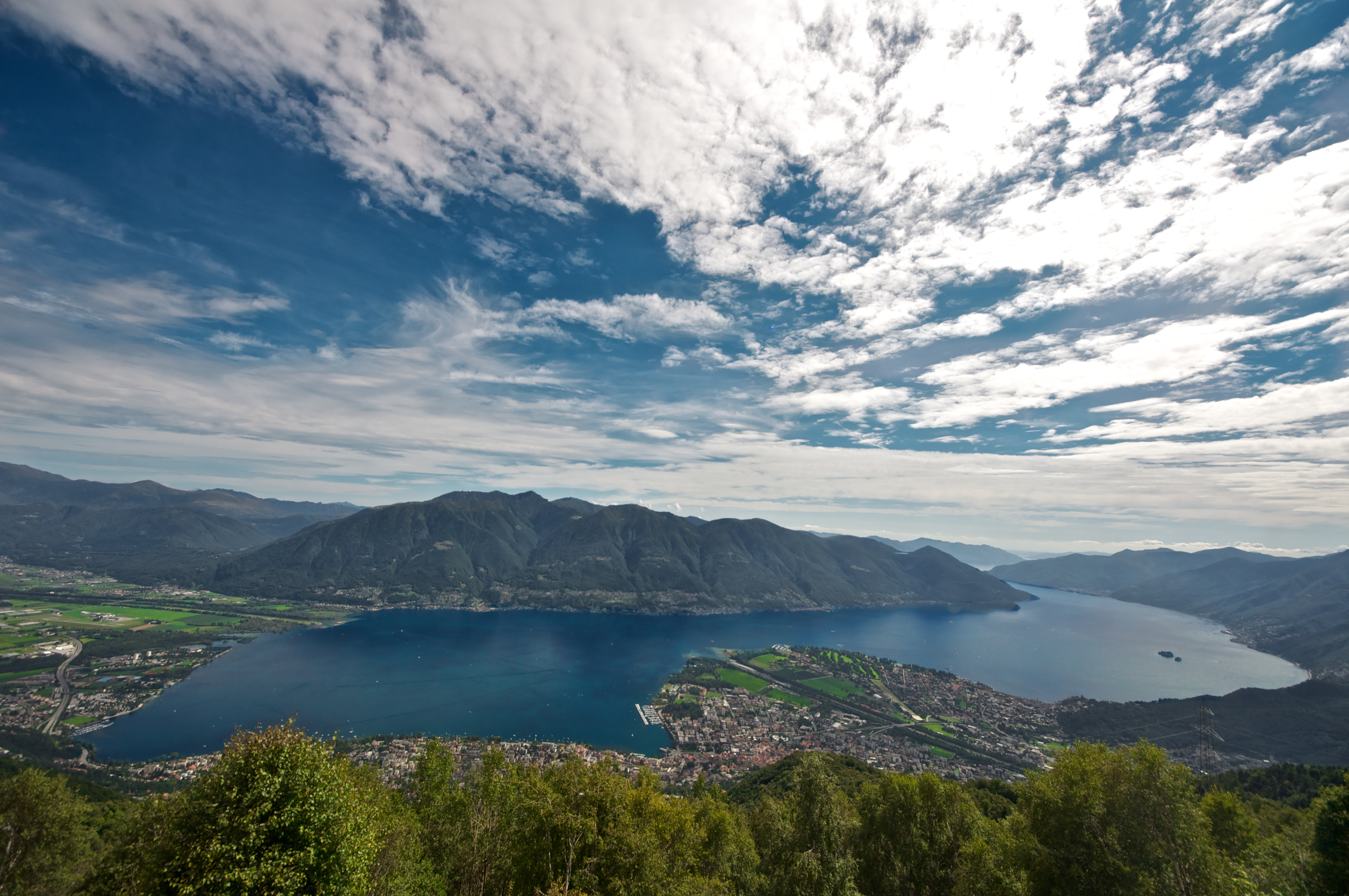 Looking South toward Lake Maggiore in Ticino, Switzerland. Locarno and Ascona are visible on the peninsula. Gambarogno is visible across the lake. Gordola is visible on the left at the end of the lake.